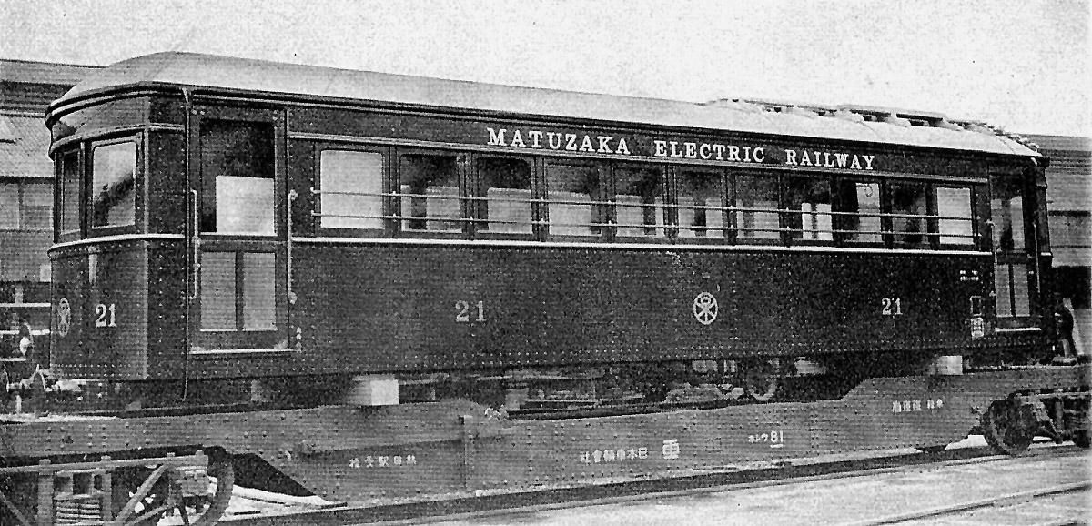 Matuzaka Electric Railway Type hu 21 EMU No.21